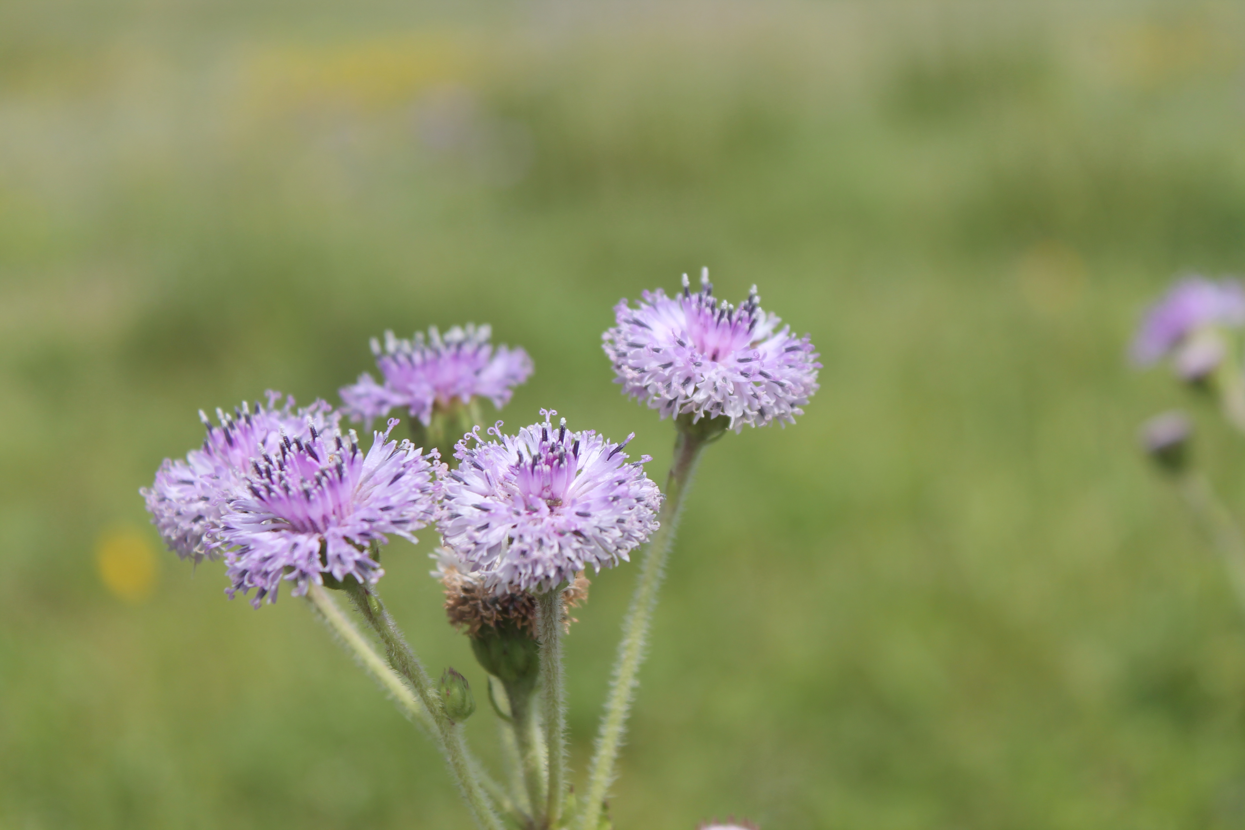 Adenoon indicum